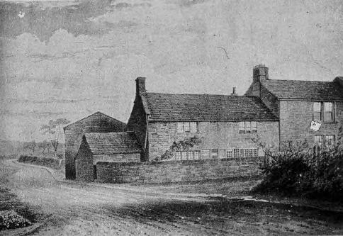 Photograph of a drawing of Joseph Priestley's birthplace